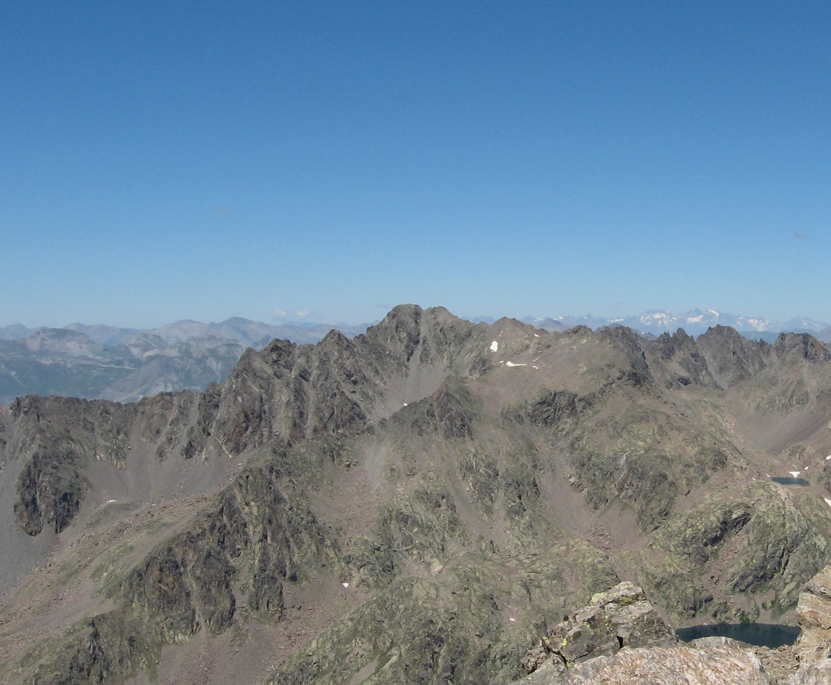 Mount Tenibres seen from the summit of Mt. Corborant, italian-french border